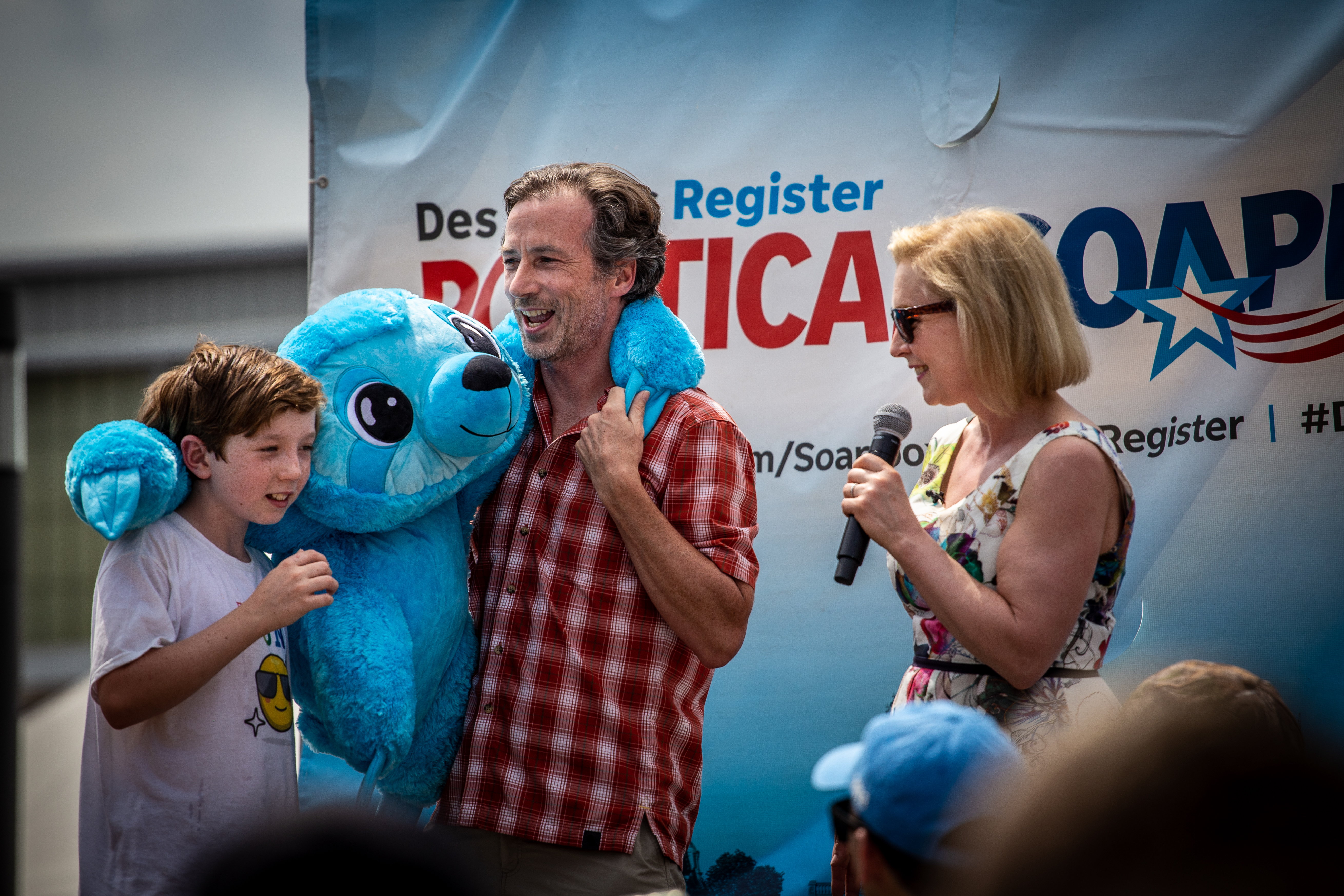 U.S. Senator Kirsten Gillibrand. Photographs of or around the Des Moines Register Political Soapbox at the 2019 Iowa State Fair as eight Democratic presidential candidates dropped by to speak on Saturday, August 10.